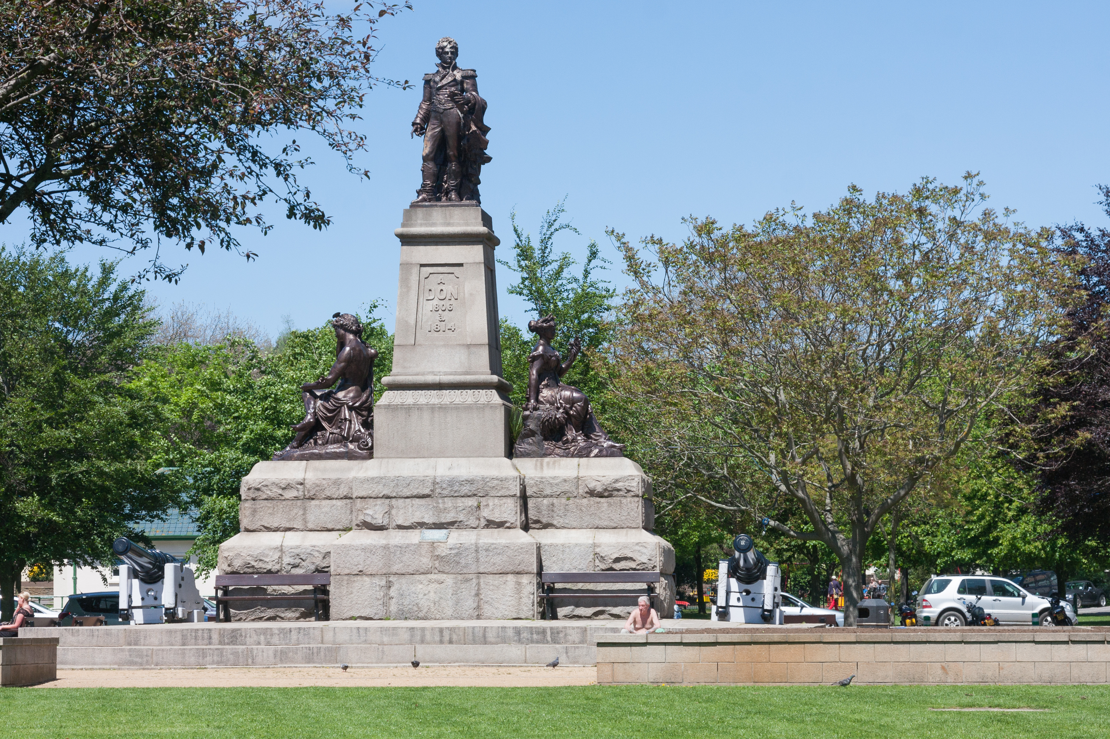 Don Monument in Parade Gardens, St Helier.